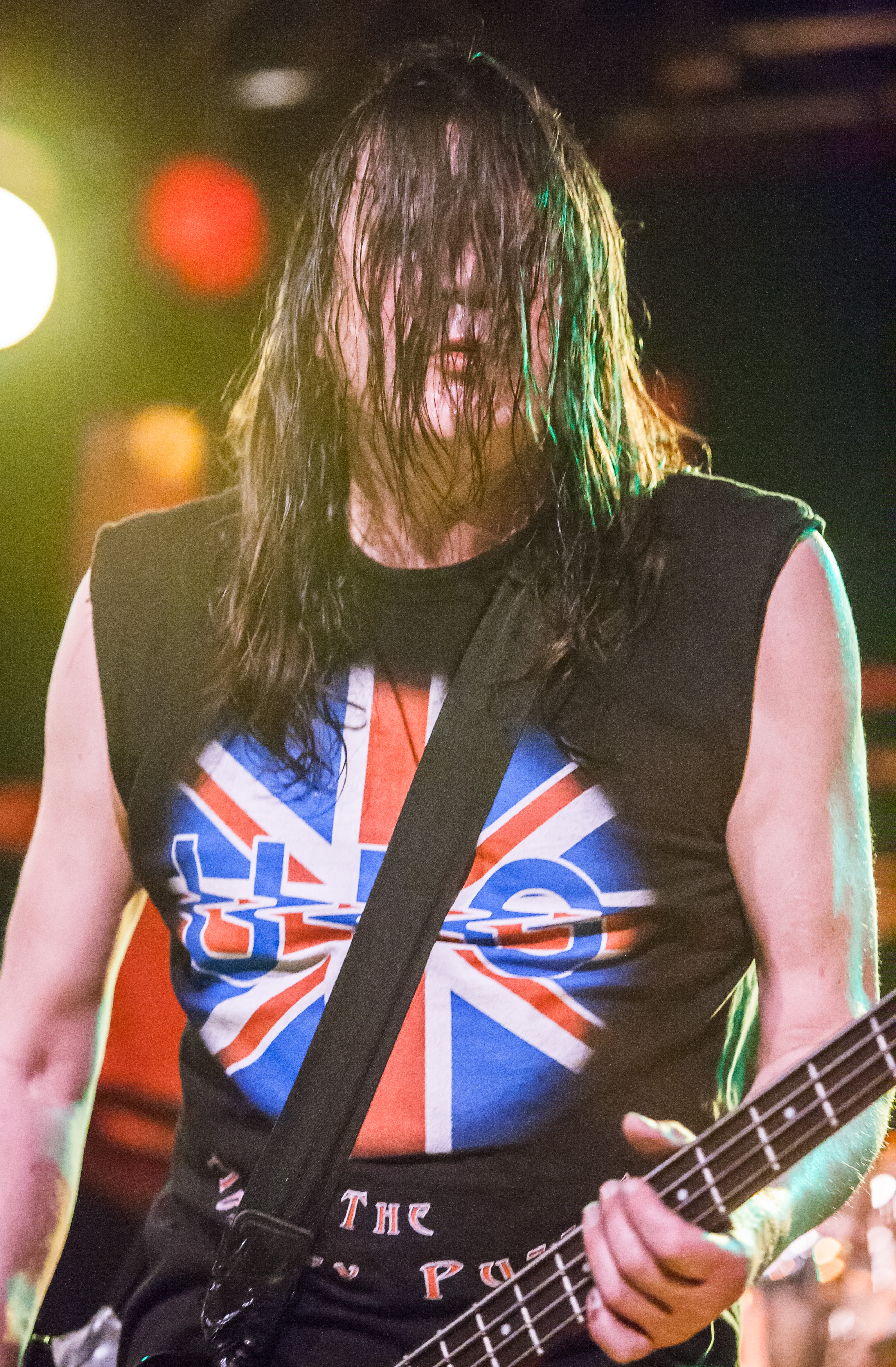 Pete Way, on stage at a concert of UFO at music club “Kantine” in Cologne